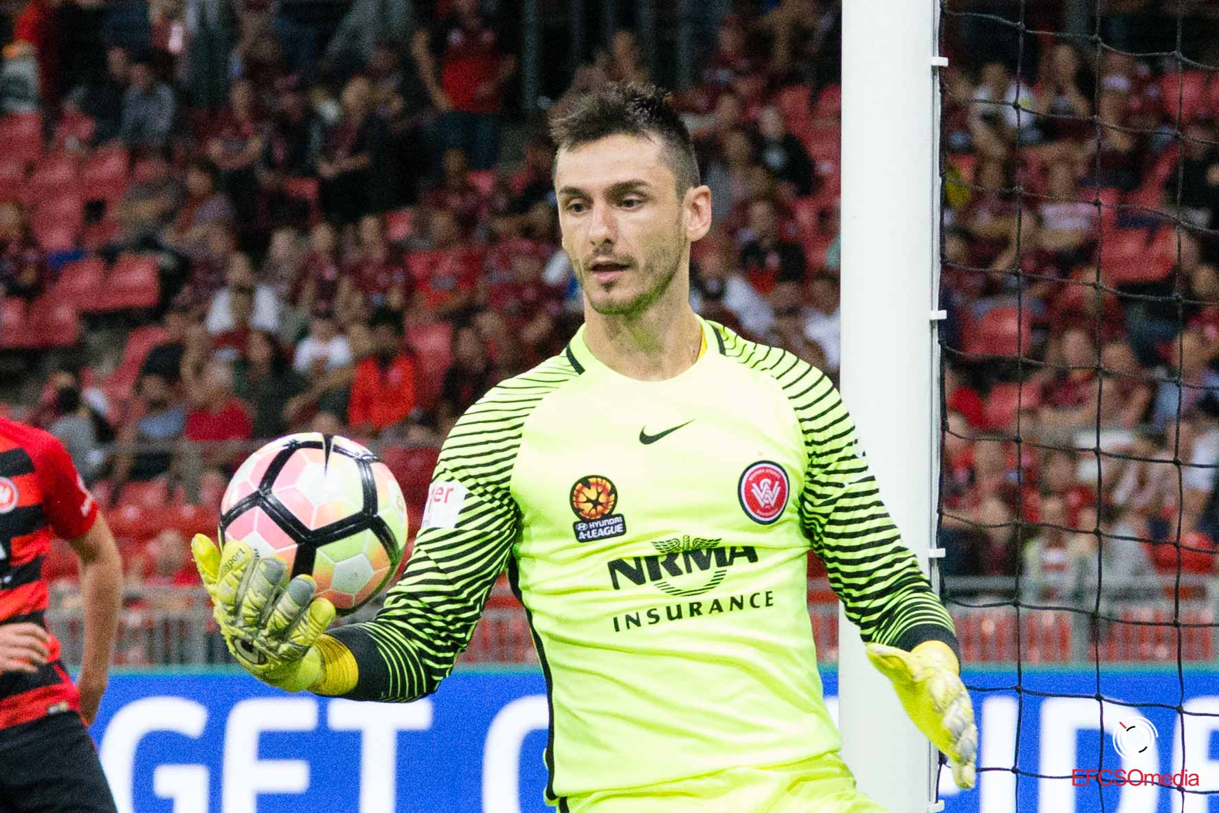 Vedran in 2016 Wanderers Goalkeeper home kit